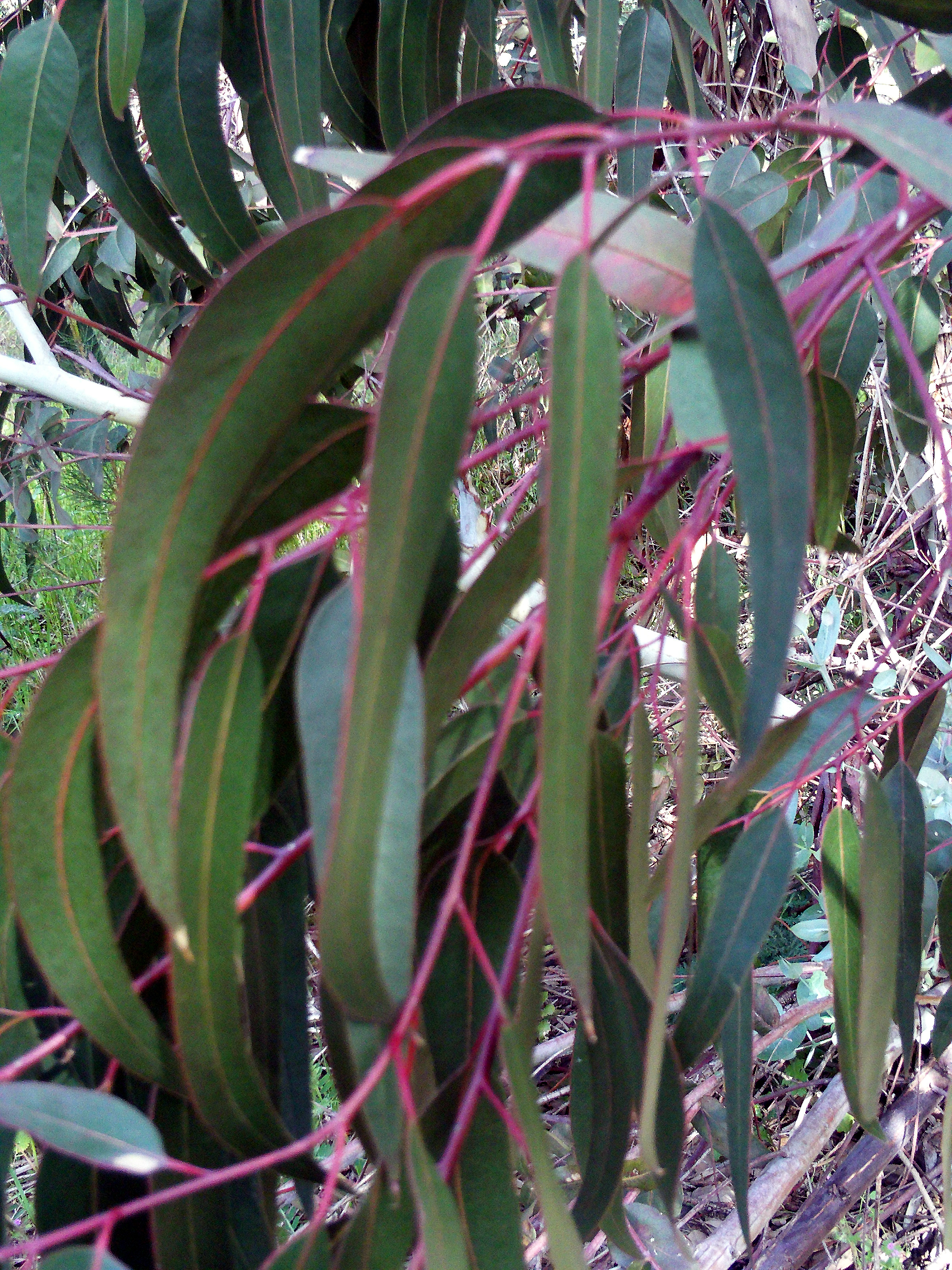 Eucalyptus camaldulensis leaves, Dehesa Boyal de Puertollano, Spain